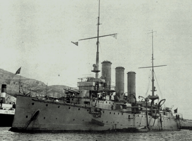 The cruiser proted Reina Regente, was launched in 1906 and retired in 1926.